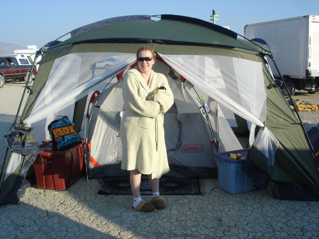 A woman in a bathrobe and slippers at Burning Man.